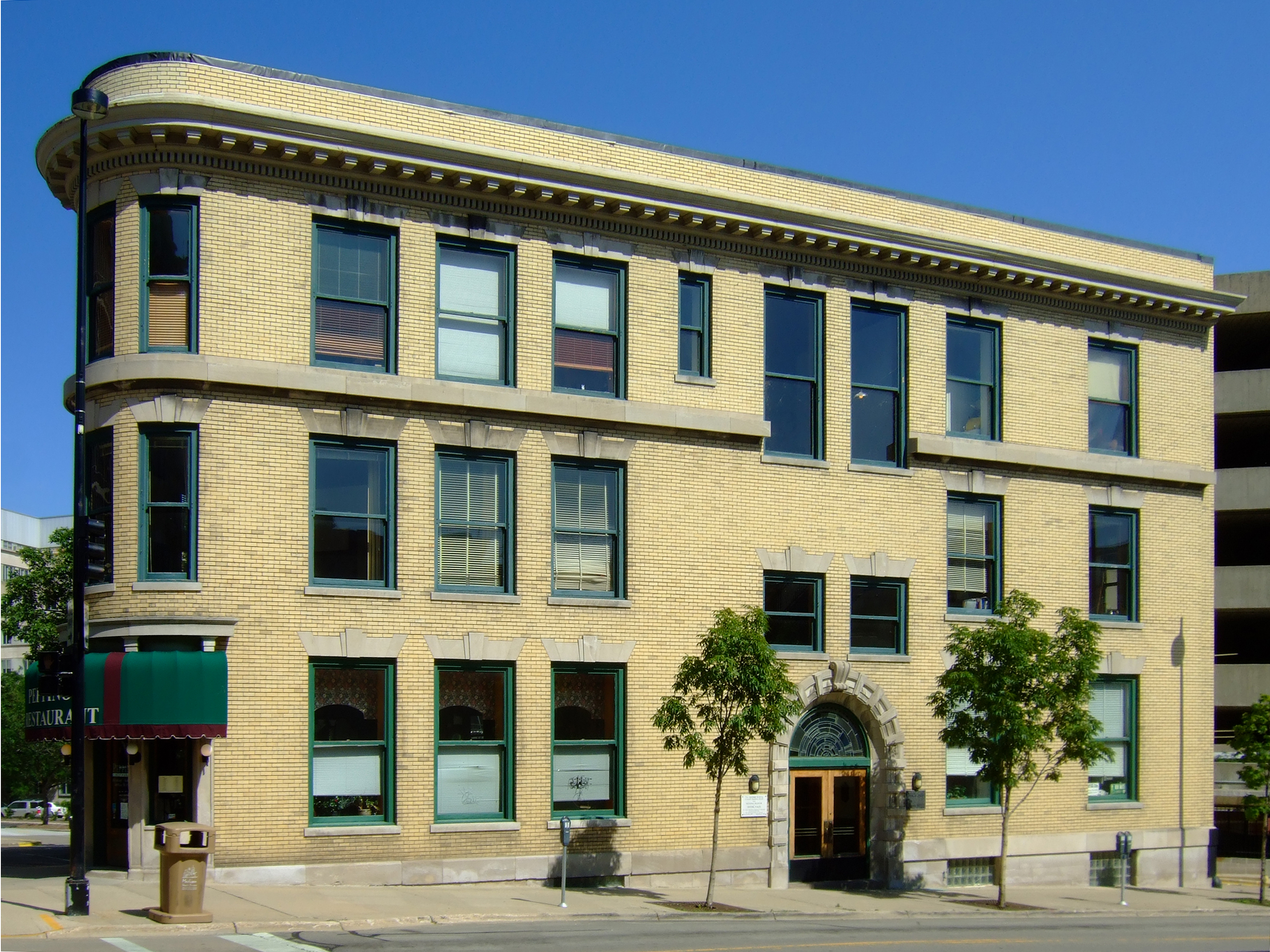 The Jackman Building (1913-14) at 111 S. Hamilton Street in Madison, Wisconsin, is an unusual example of early 20th-century commercial architecture because it is preserved virtually intact both inside and out. Designed by the local architectural firm Claude and Starck, it was built for the law firm of Richmond, Jackman, and Swanson. Their successors occupied the second and most of the third floors until 1976. In style, the building is a simplified version of Classical Revival. Classical elements include the decorative cornice and stonework around the main entrance. It was added to the National Register of Historic Places in 1980.